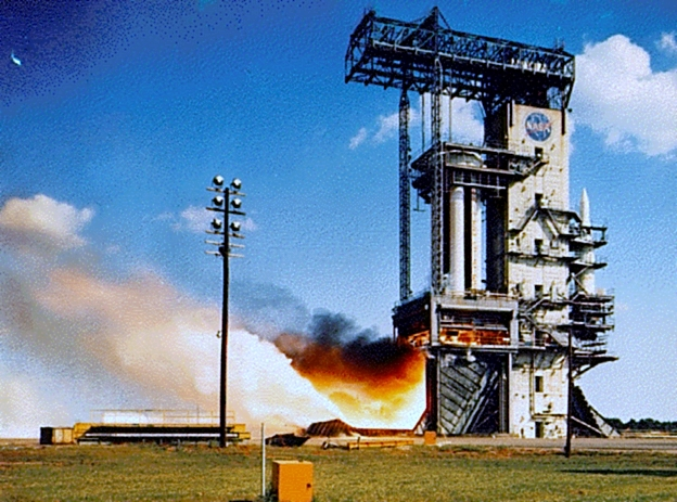 Eight H-1 engines on a Saturn I first stage (S-1) fire at the Propulsion and Structural Test Facility at George C. Marshall Space Flight Center in Huntsville, Alabama. This is the site where the first single stage rockets with multiple engines were tested for NASA.